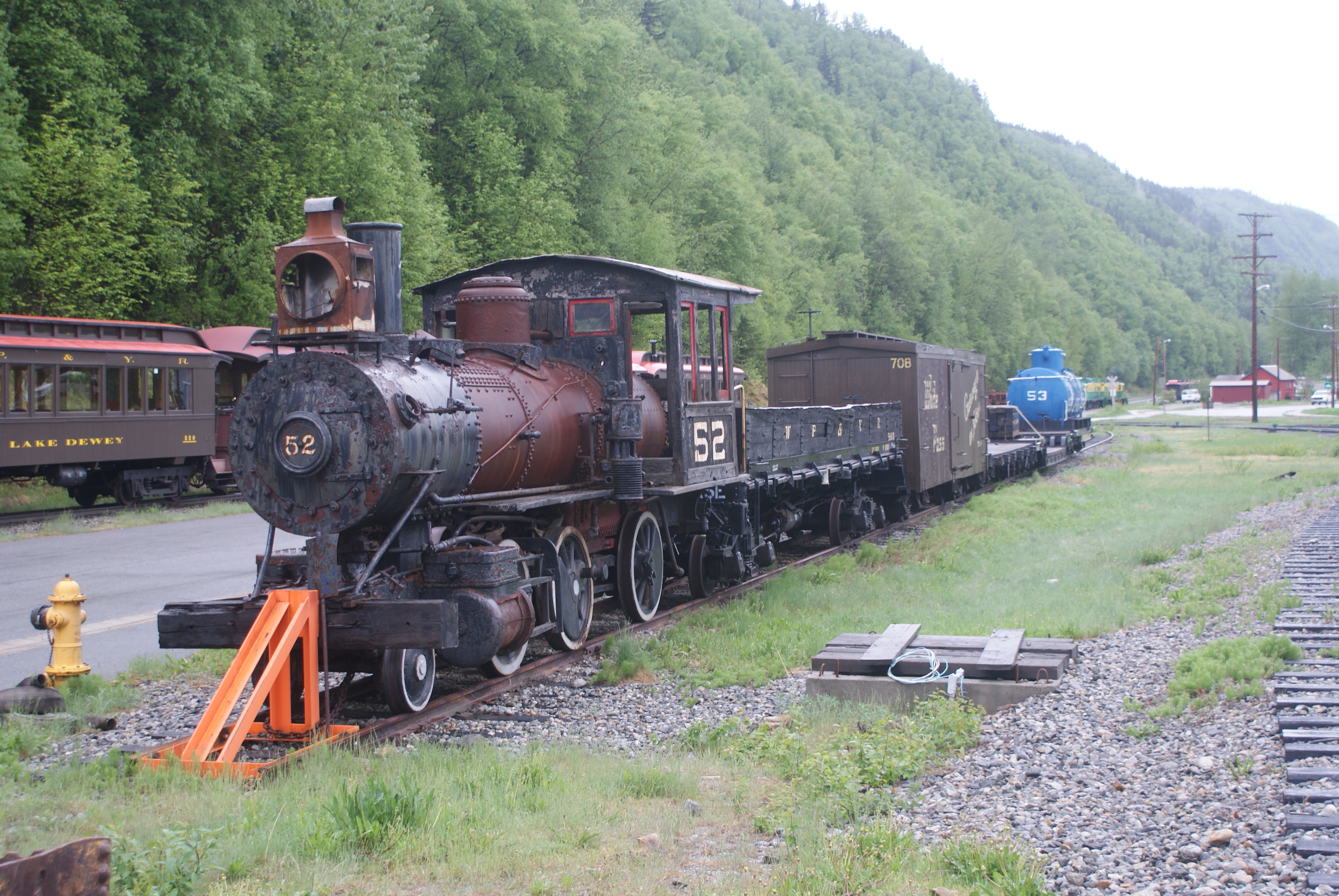 White Pass and Yukon Route locomotive No. 52, on display at the sheds in Skagway, Alaska, awaiting restoration.